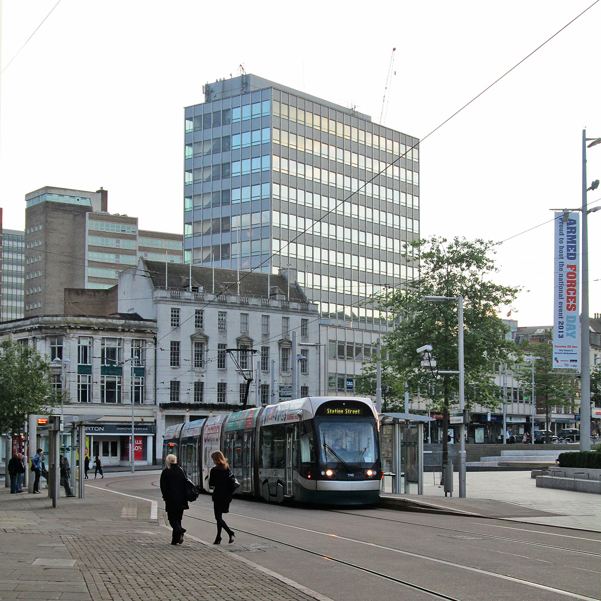 A tram in South Parade. Looking towards the Market Square tram stop, Beastmarket Hill and the tower blocks of Maid Marian Way from the top of Exchange Walk on a midsummer evening.